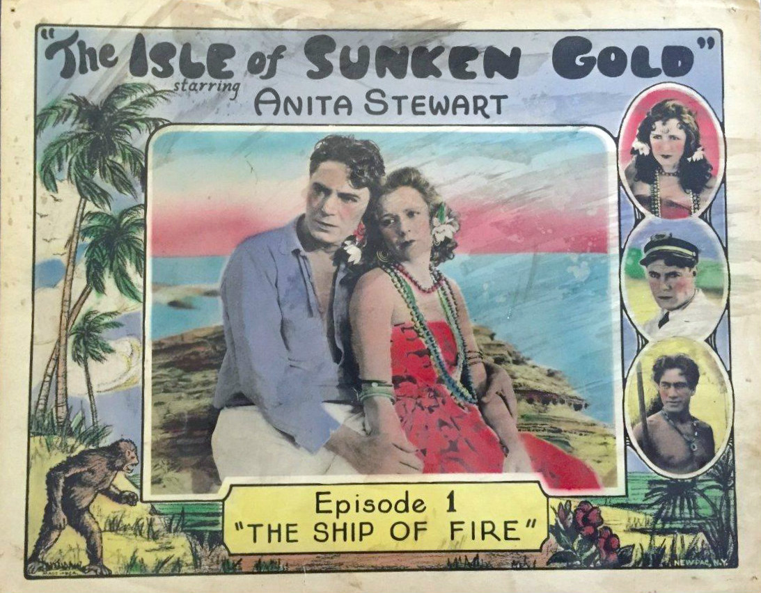 Lobby card for the American film serial Isle of Sunken Gold (1927) with Bruce Gordon, Anita Stewart, and Duke Kahanamoku. The film is considered lost.